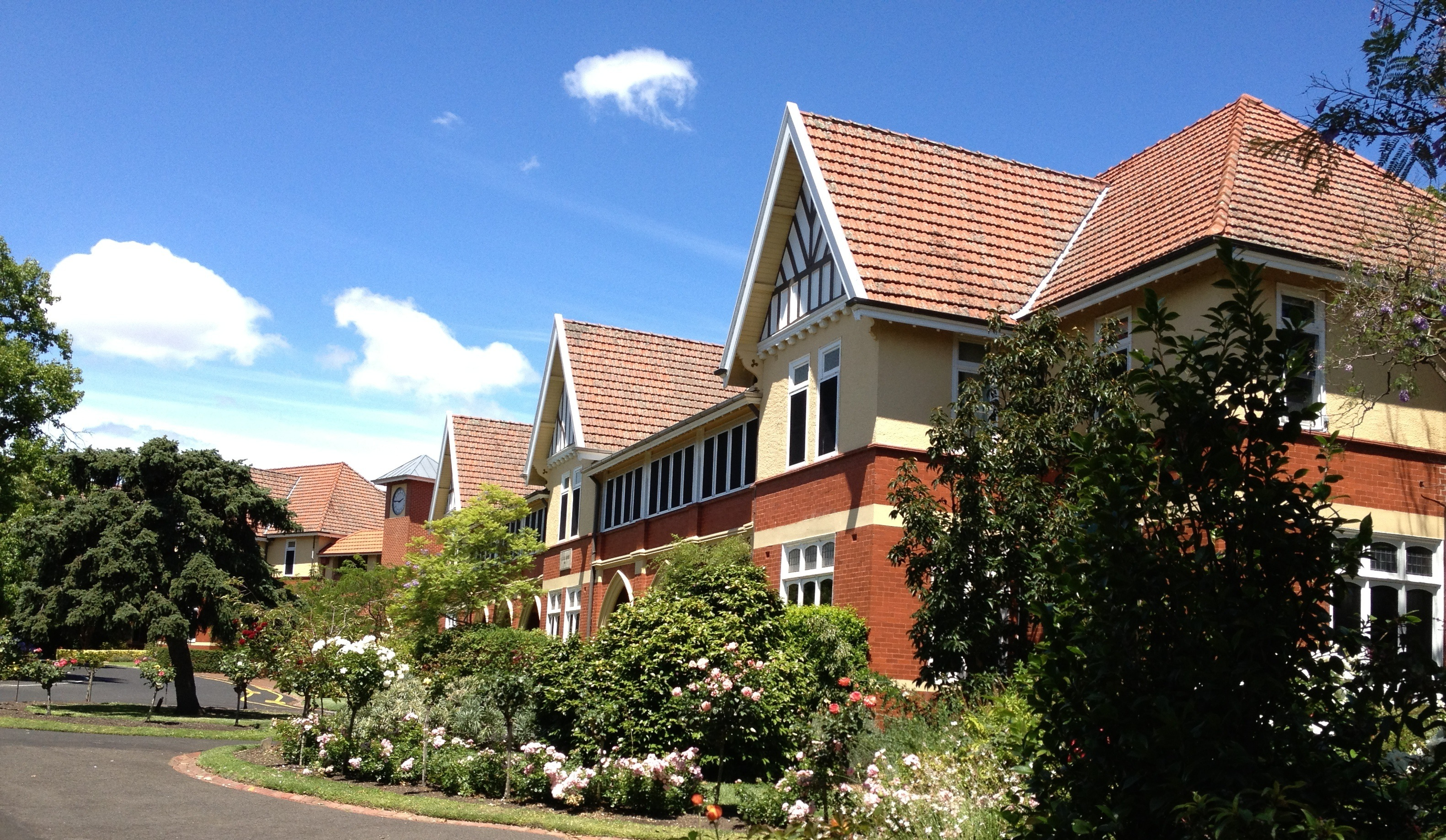 One of the three boarding houses at Scotch College, Melbourne - School House